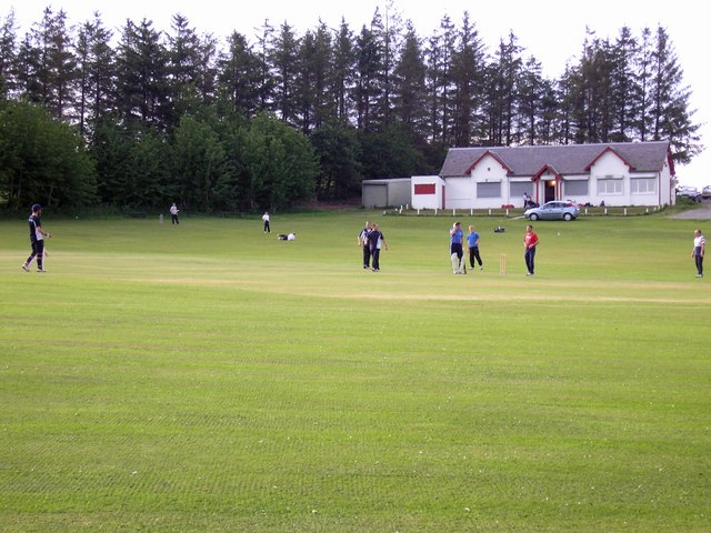 Gala Cricket Club On a Thursday Night Training